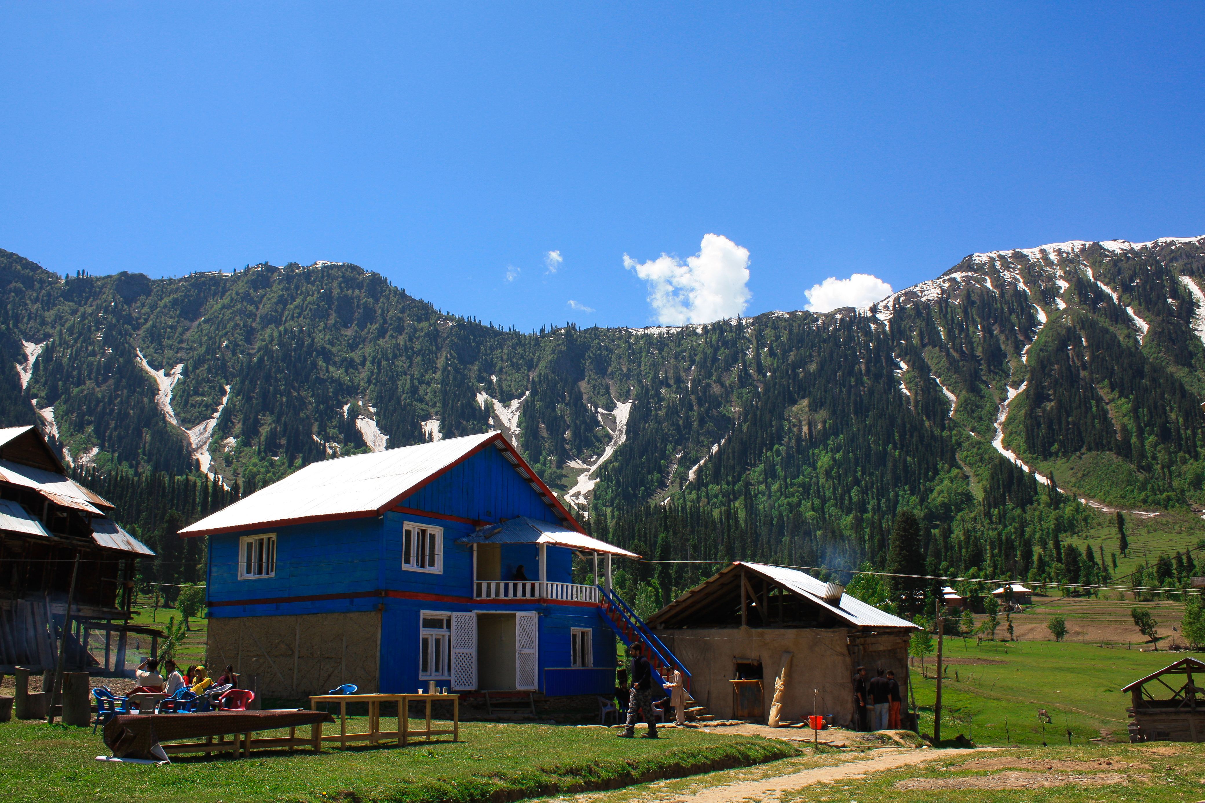 kashmir